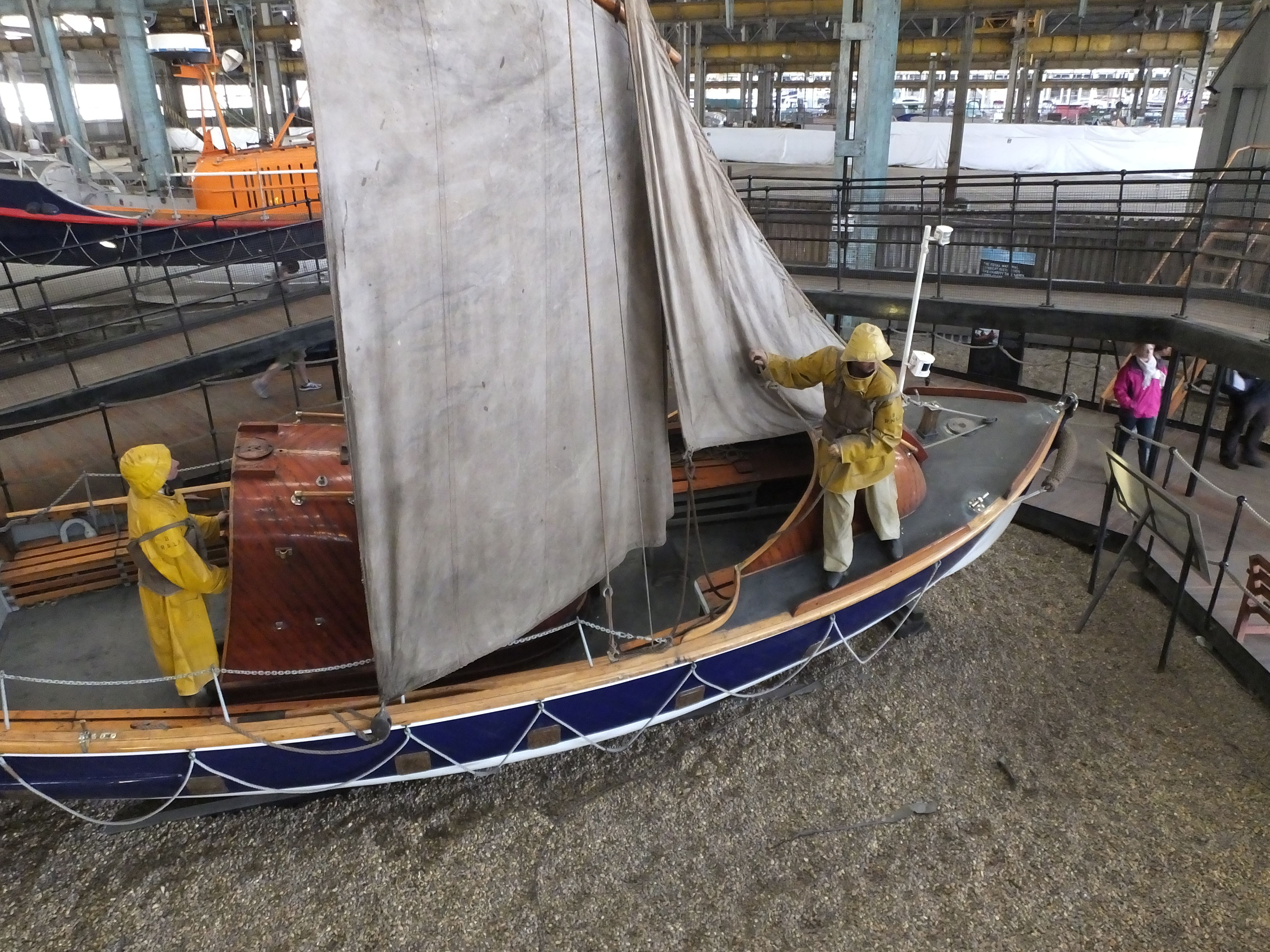 The RNLI Historic Lifeboat Collection at the Historic Dockyard in Chatham, Kent, is the UK’s largest collection of historic lifeboats. [ RNLI Historic Lifeboats in Chatham Helen Blake